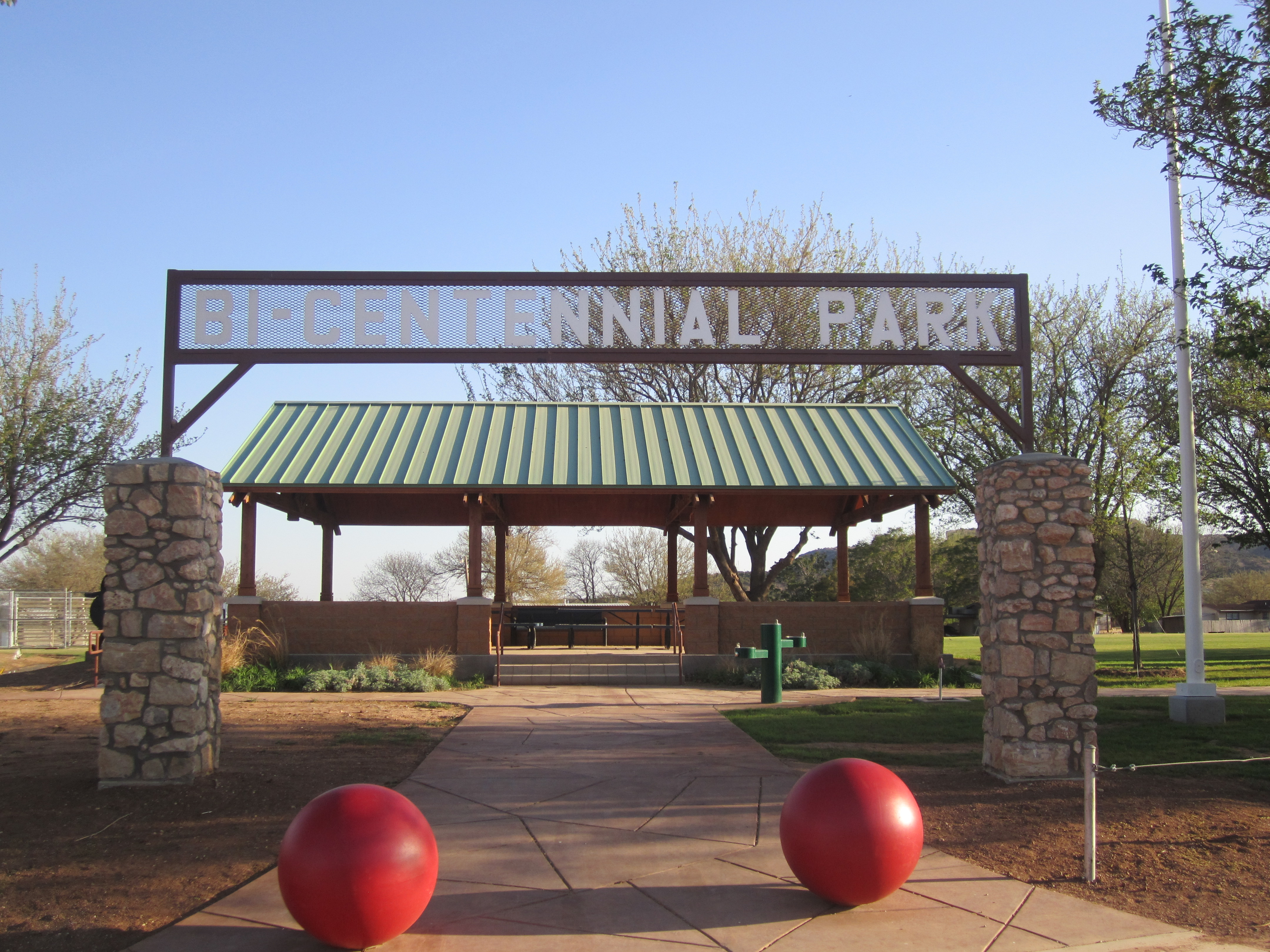 I took photo in Gail, TX, with Canon camera.